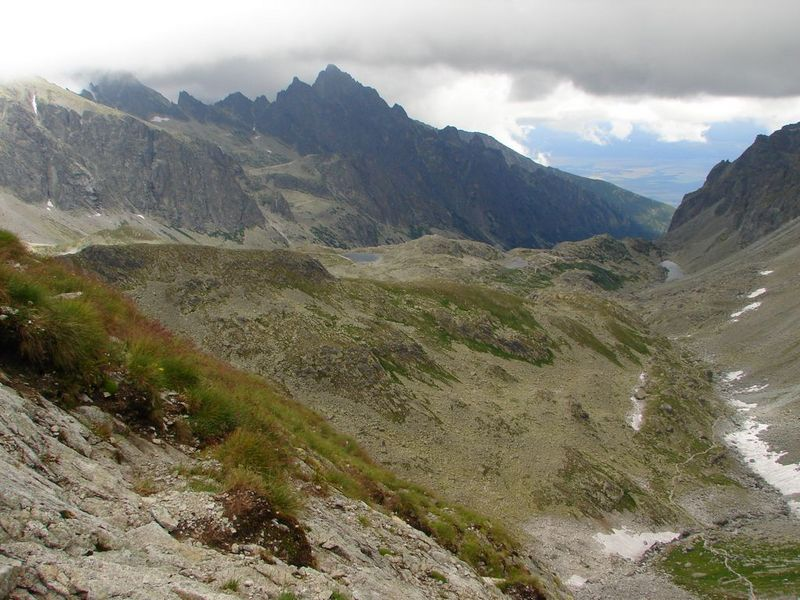 Veľká Studená dolina Valley in High Tatras Mts.